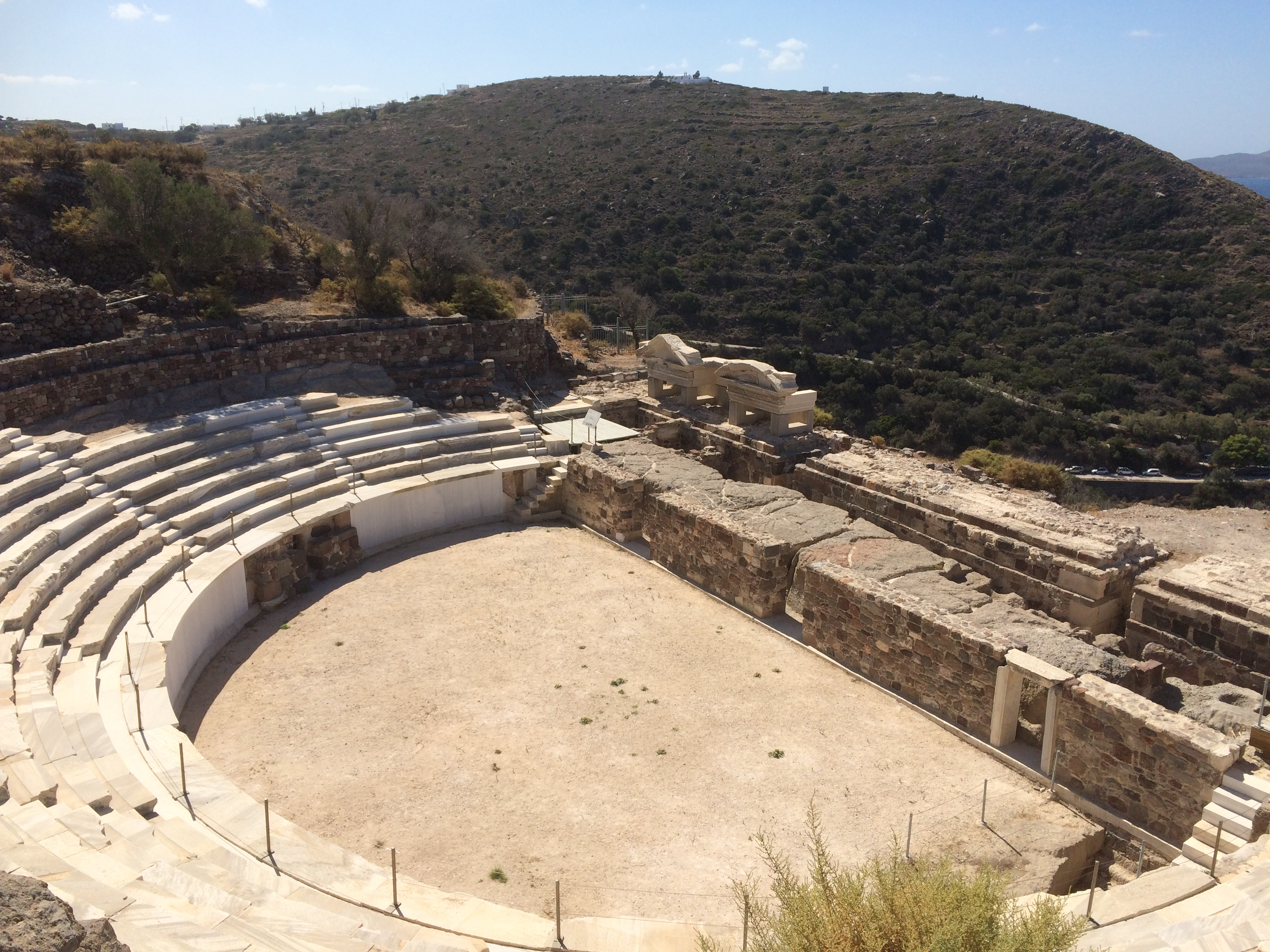 The photo has been taken in August 2018